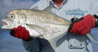 Caranx bucculentus, Port Douglas QLD